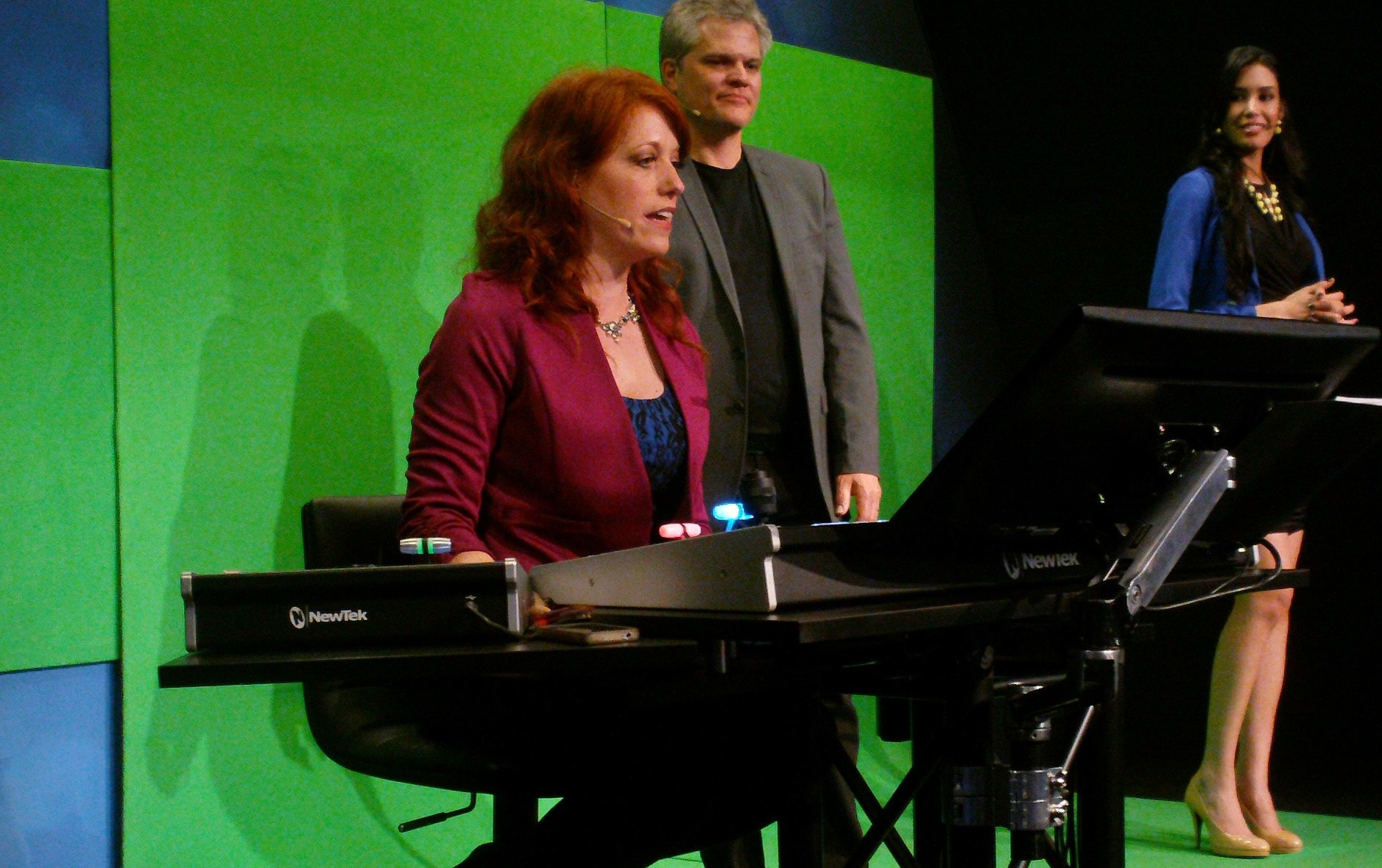 Kiki Stockhammer demonstrating at 2013 NAB Convention